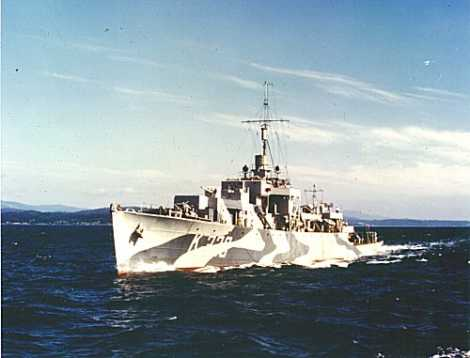 River class frigate HMCS Wakesiu